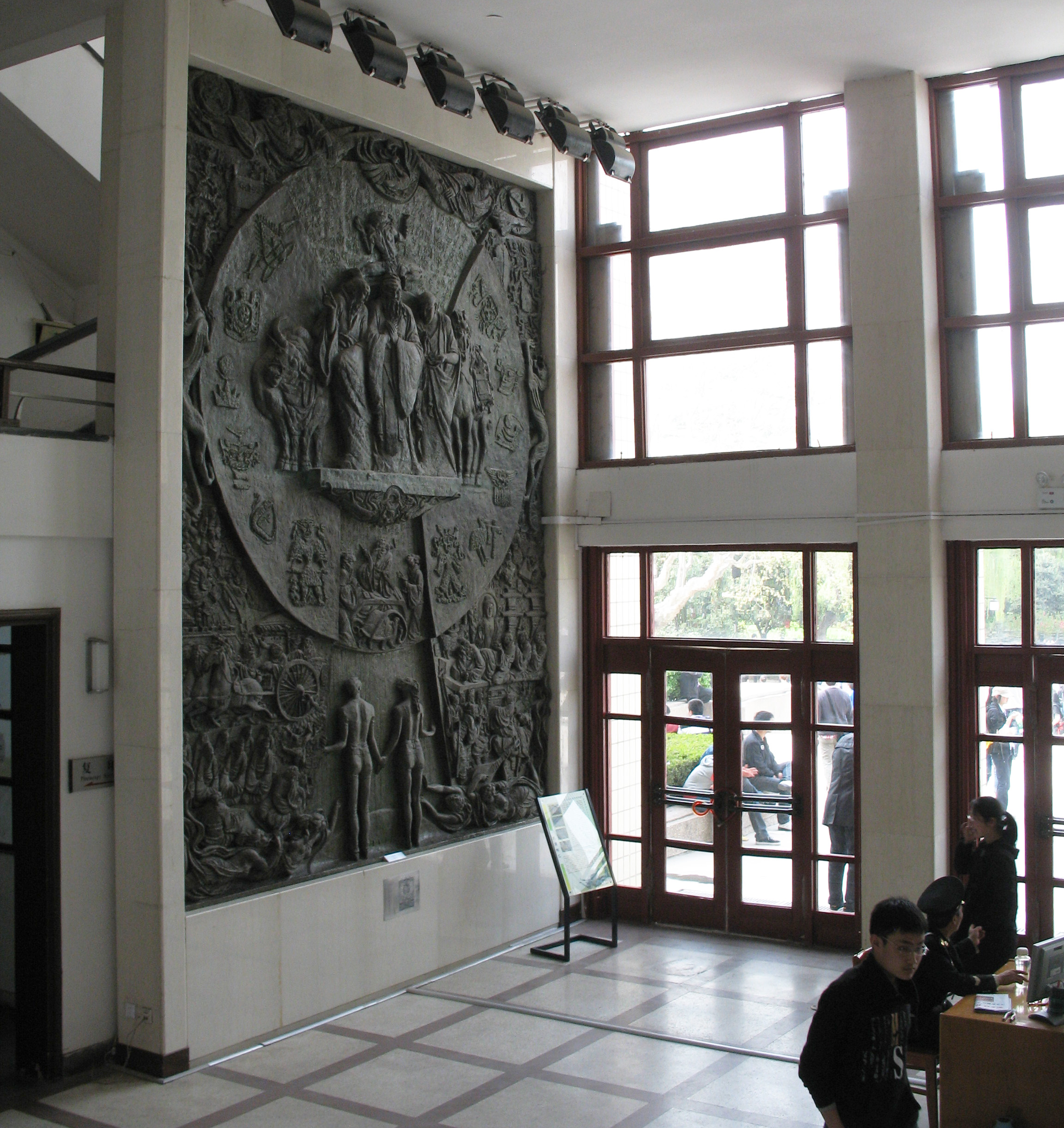 A sculpture in the Library of XJTU, with Confucious, Laozi and Sakyamuni on it.